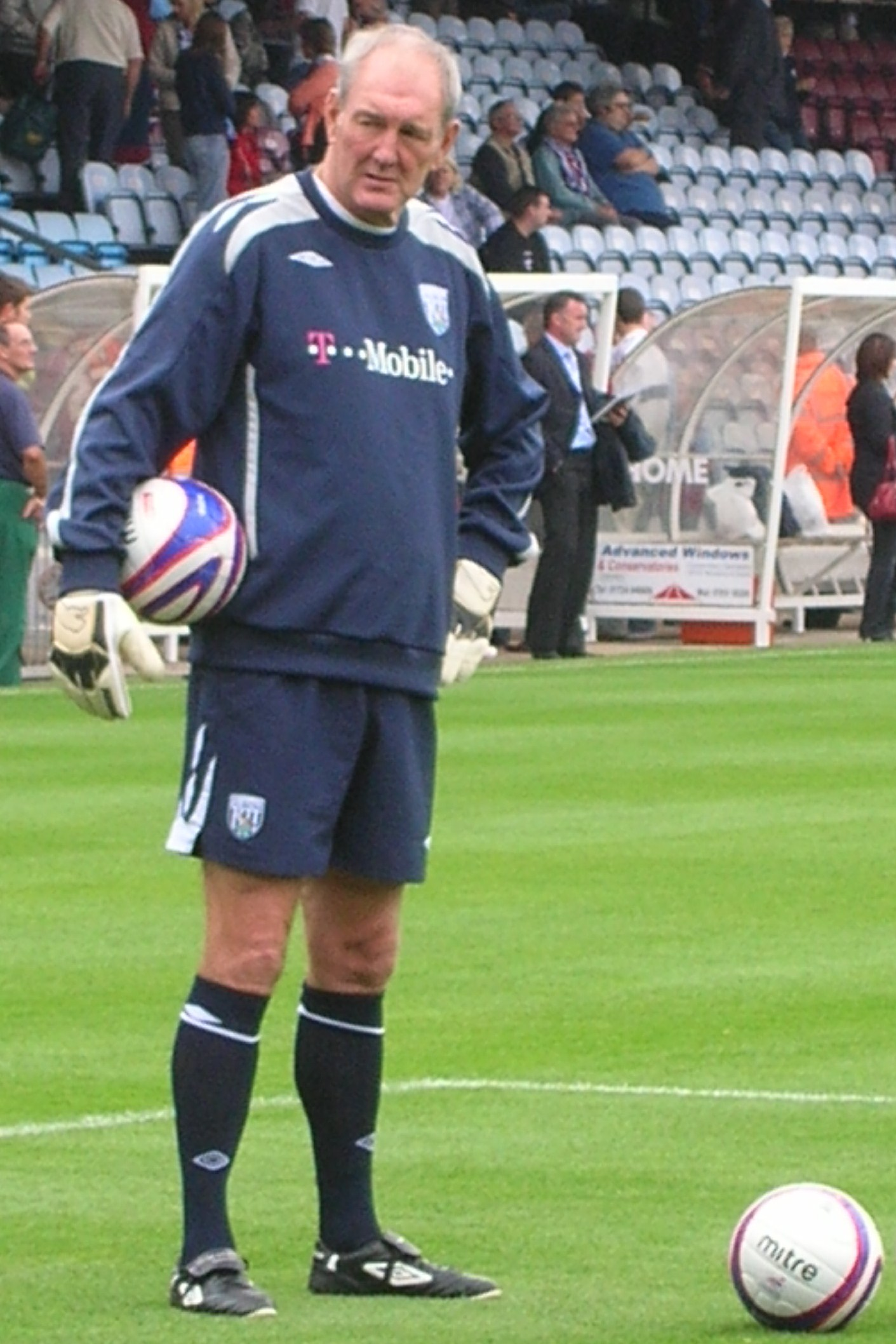 Joe Corrigan, West Bromwich Albion's goalkeeping coach, at Glanford Park, Scunthorpe on 2007-09-22